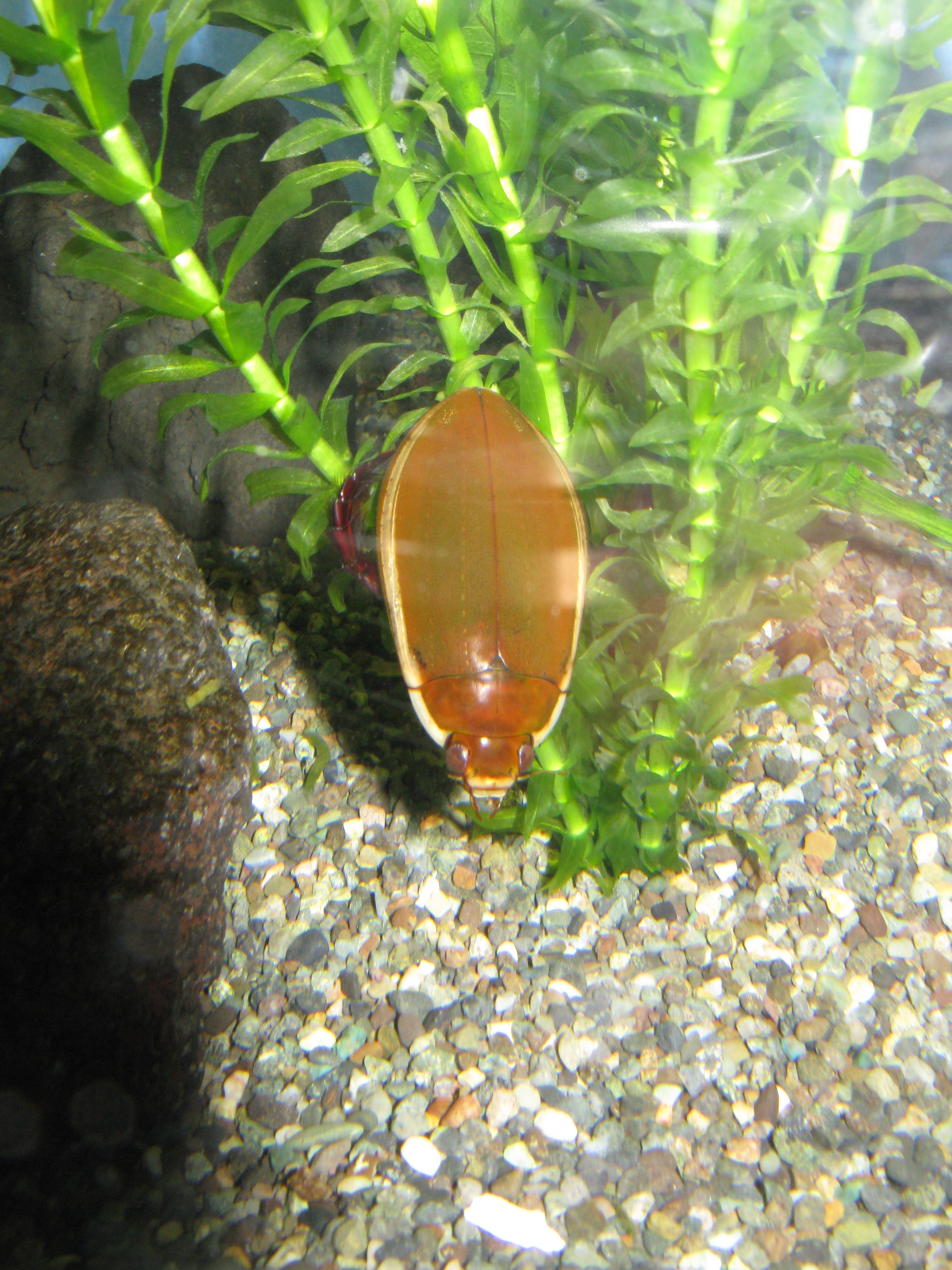 Scientific name: Cybister japonicus Place: Itami City Museum of Insects, Hyogo, Japan